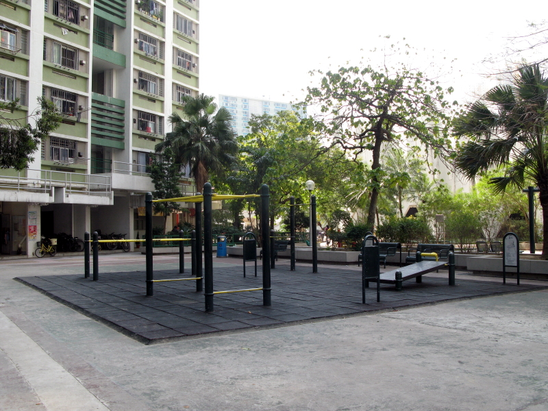 May Shing Court Fitness Facilities